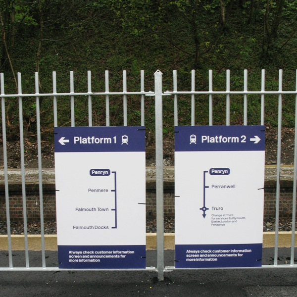 New direction signs erected at Penryn railway station, Cornwall, as part of enhancement work on the Maritime Line. For many years the station had only one platform used by trains in both directions but in 2009 the platform was lengthened and a passing loop installed. Trains travelling towards Truro run straight past the left hand end of the platform into the right hand one. While a train is stopped at the right hand end, another train can pass through the loop to the left hand end where it stops on its way towards Falmouth, the terminus of the line.